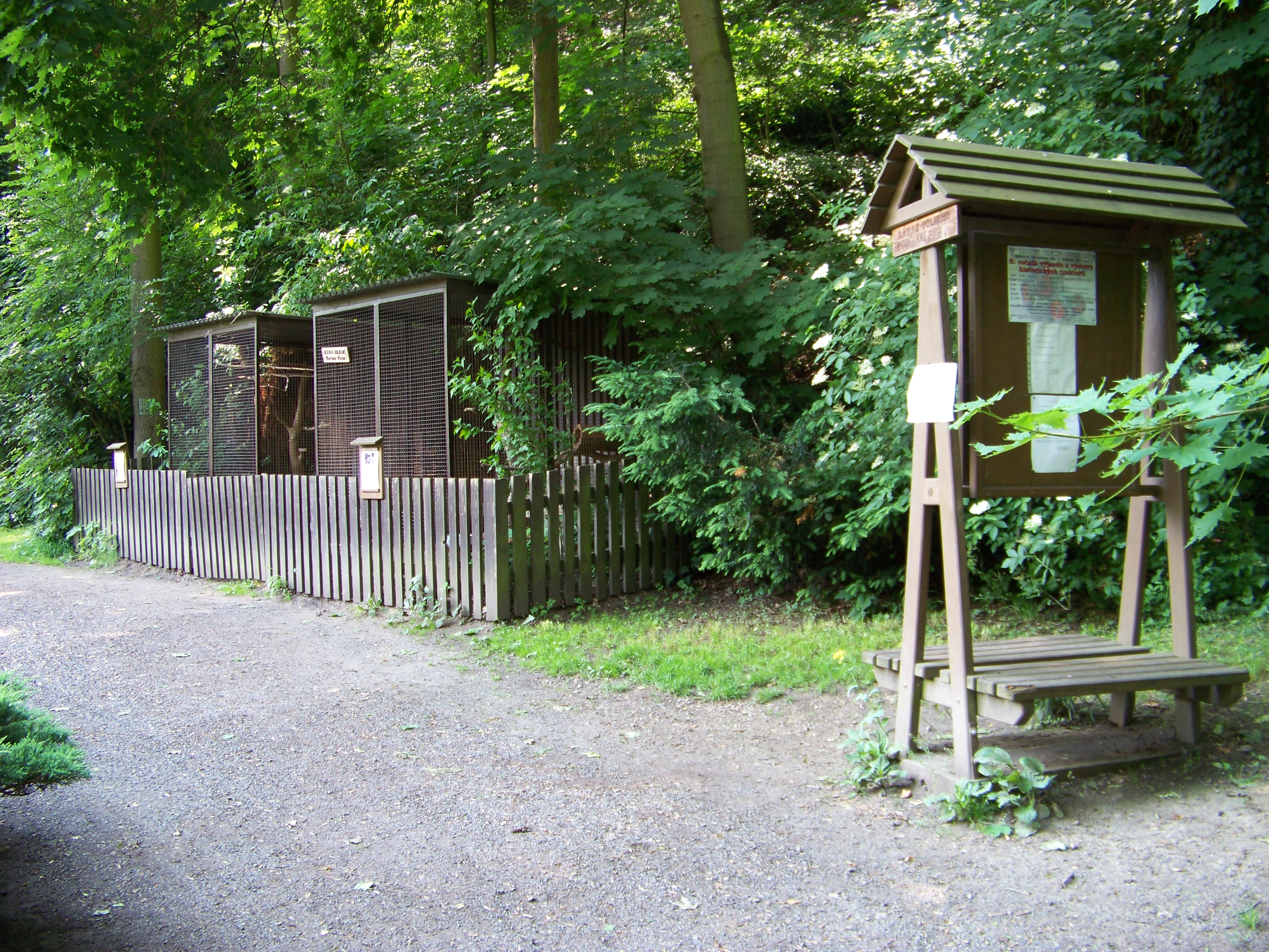 Dolní Břežany-Lhota, Prague-West District, Central Bohemian Region, the Czech Republic. A forestry zoo spot.